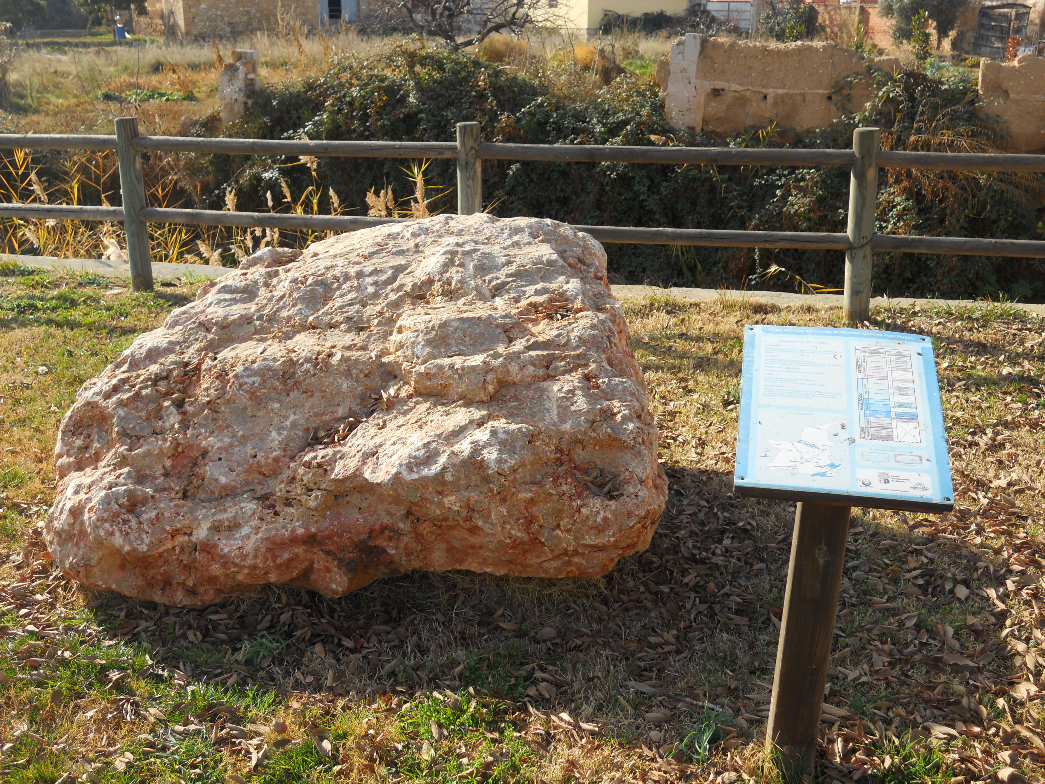 Unit 02. "Carniolas" (brecciated dolostone) of Cortes de Tajuña Formation, Late Triassic to Early Jurassic, Alcorisa, Teruel, Spain.